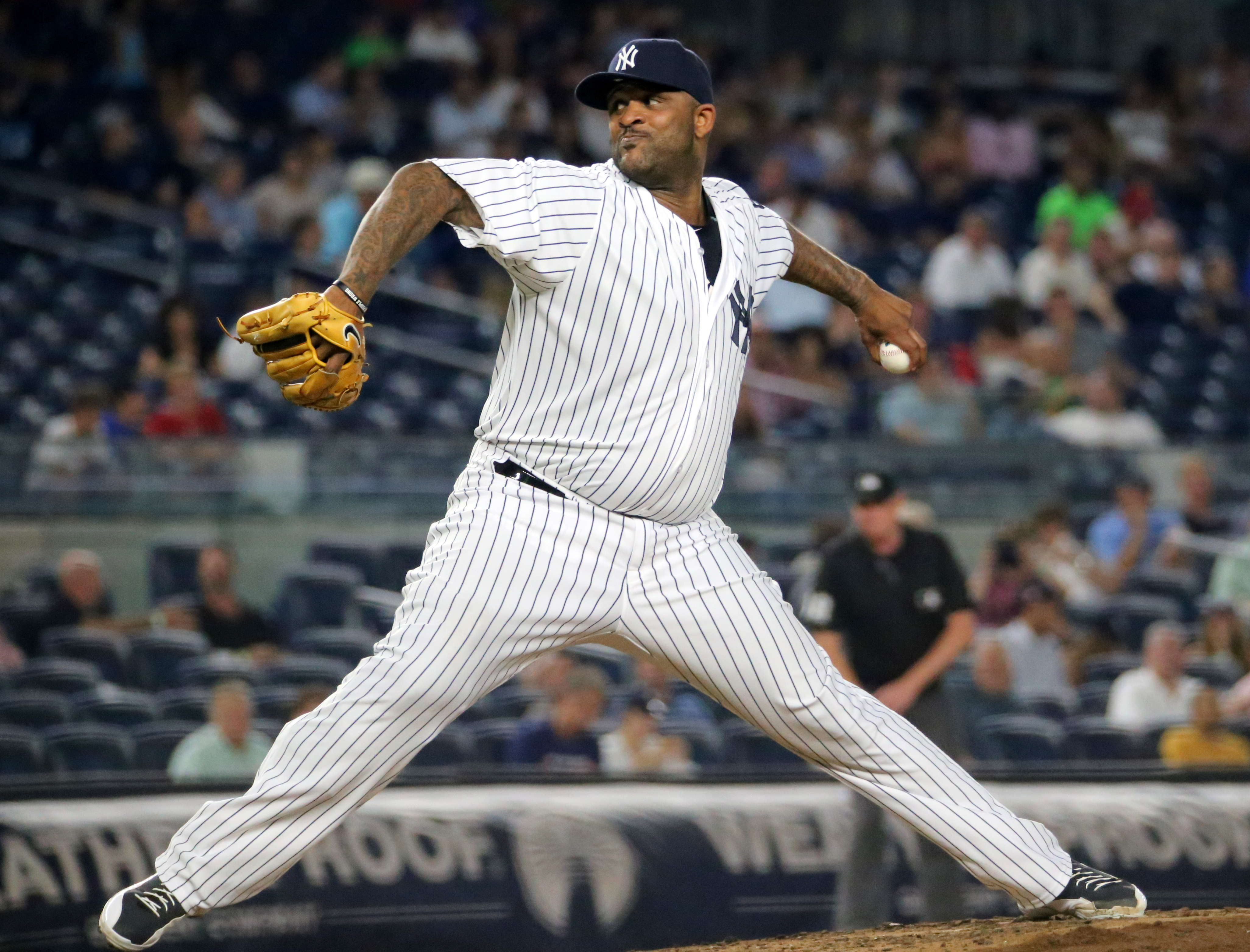 New York Yankees pitcher CC Sabathia during the third inning of a game against the Tampa Bay Rays at Yankee Stadium in the Bronx, New York, NY on September 8, 2016